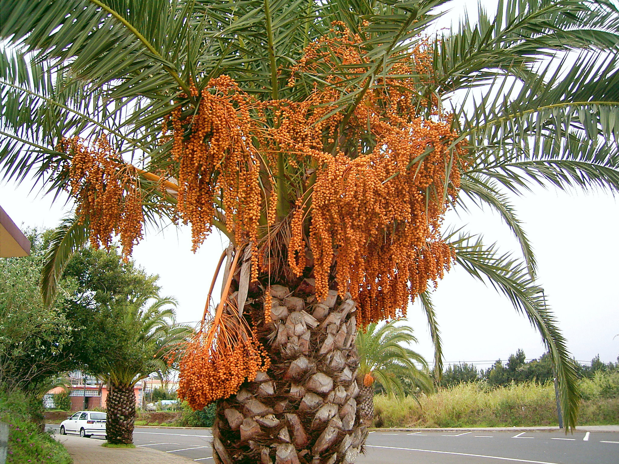 Phoenix canariensis growing in Barlovento, La Palma, Canary Islands